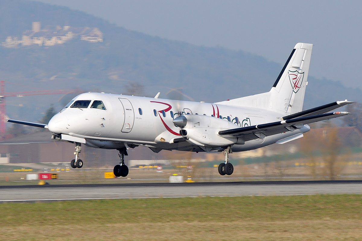 A Robin Hood Saab 340 landing in Zurich Kloten